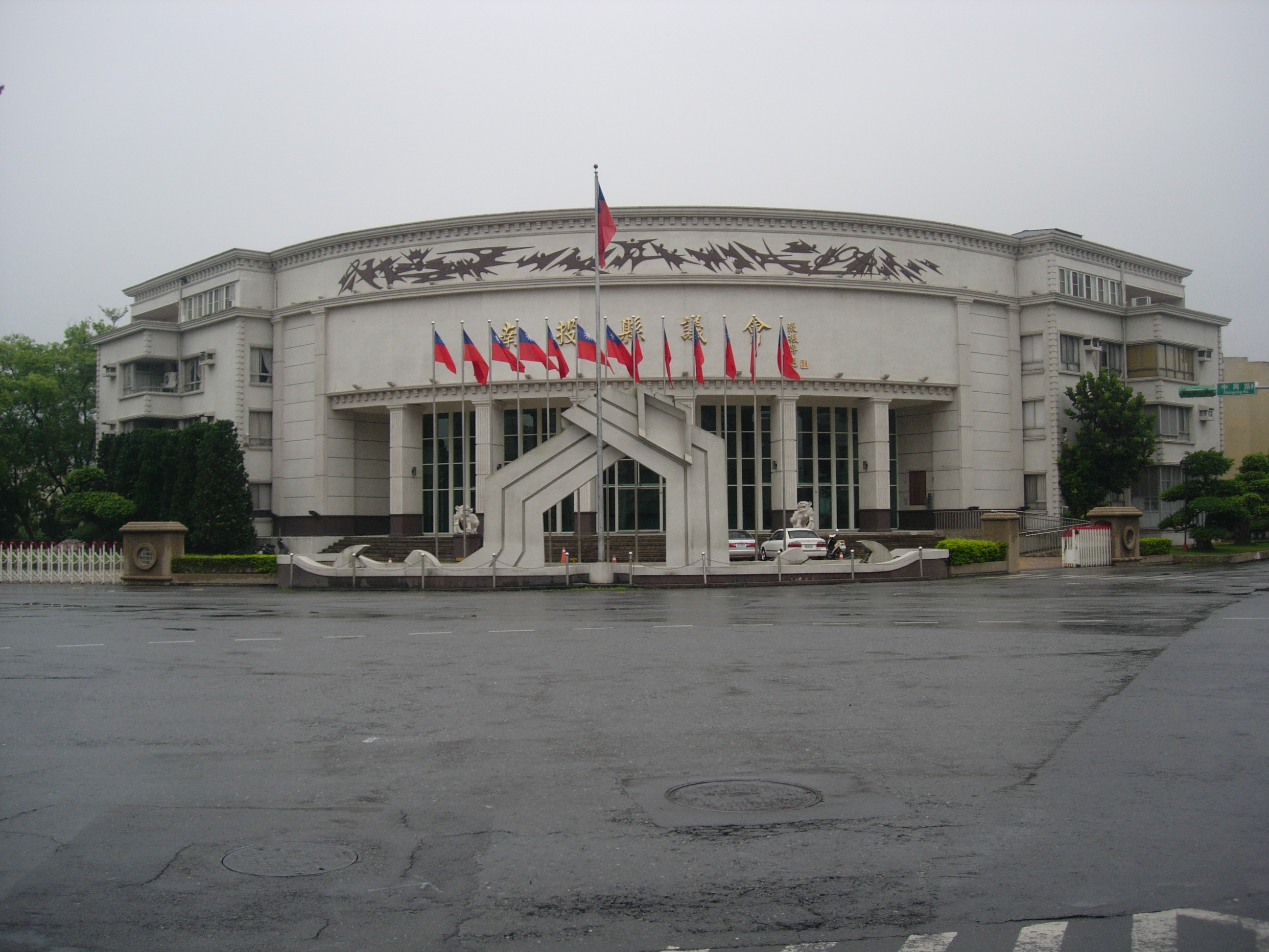 Nantou County Council